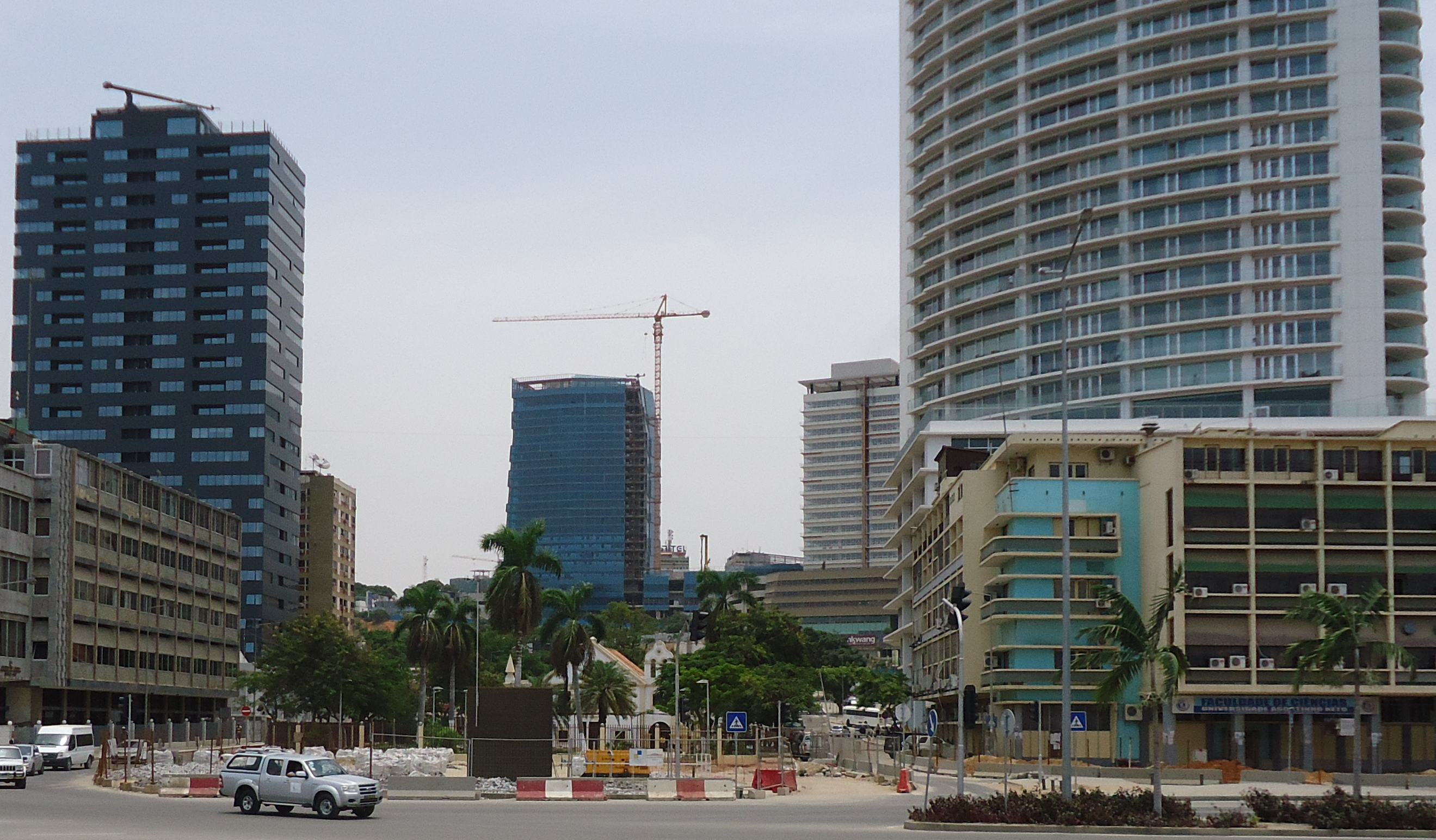 Marginal Avenida 4 de Fevreiro. Photo by Fabio Vanin, Luanda, 2013.